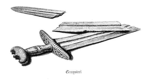 The Sword Graysteel ("Grásíða"), from Gísla saga (1866 English translation by George W. DaSent)